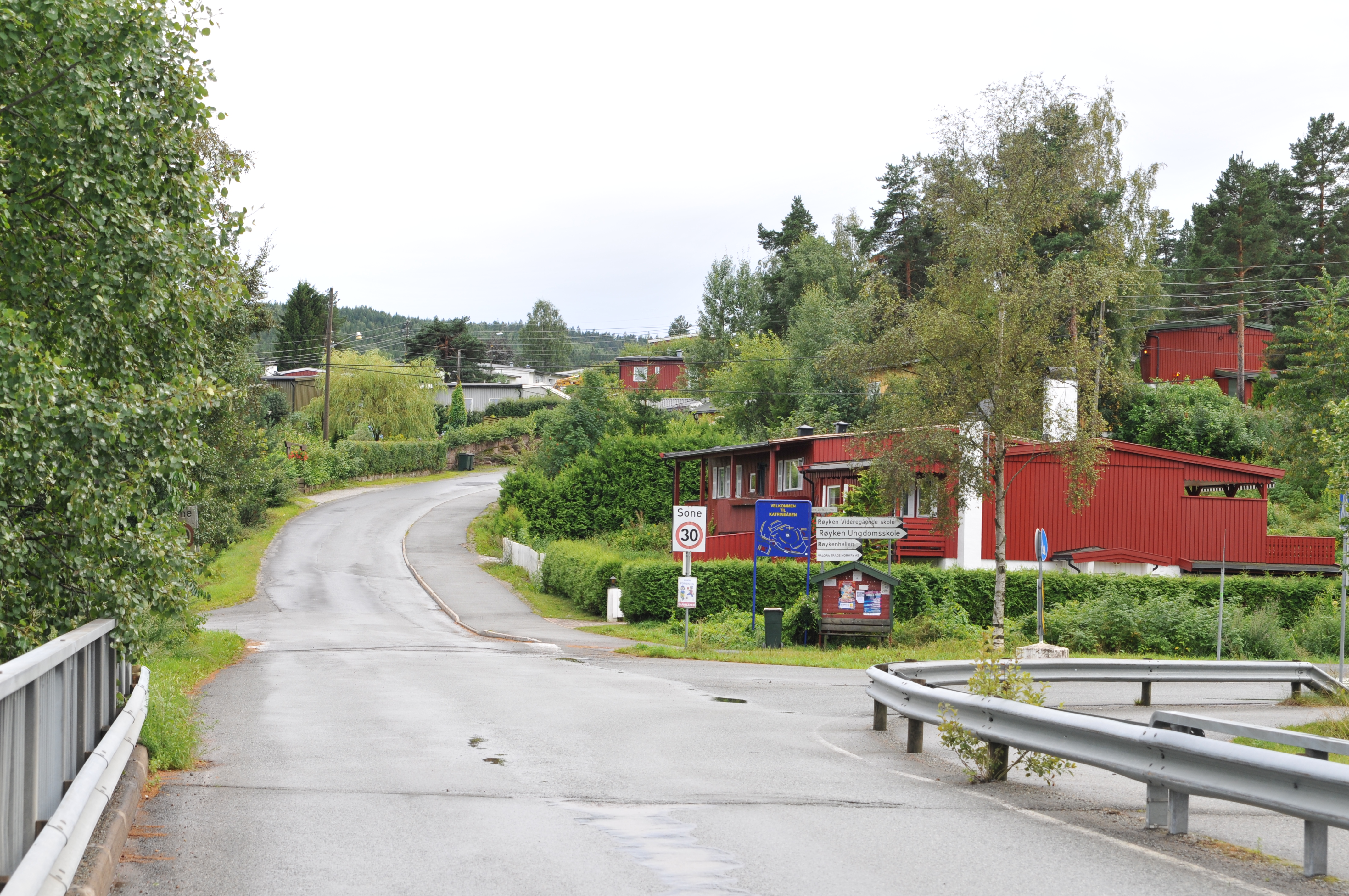 Katrineåsveien in Midtbygda in Røyken, Buskerud, Norway. The first intersection to the right is Jon Leiras vei. A few meters further on is the intersection to the left where Bjerkelundveien starts.